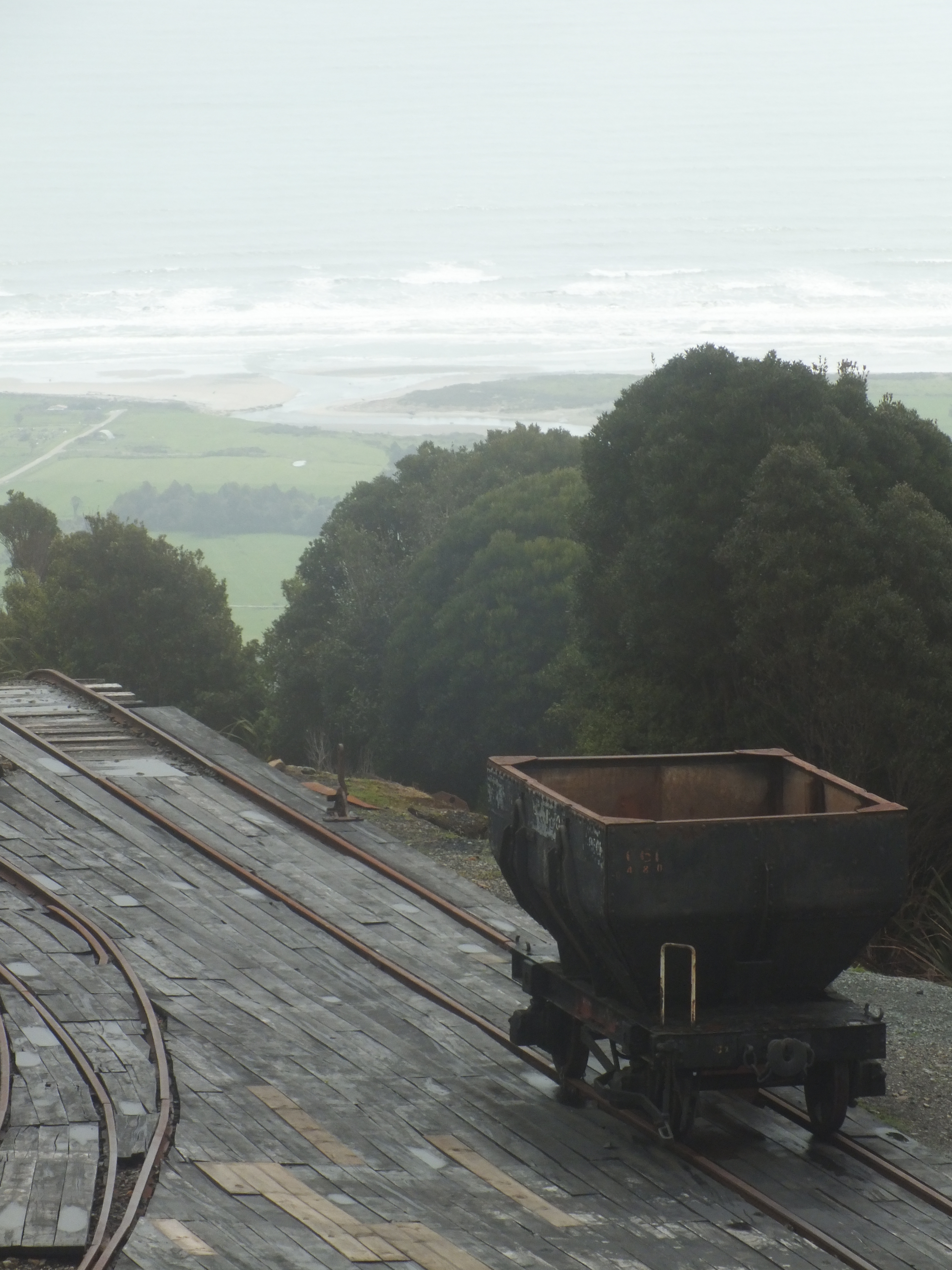 View from the top of the Denniston Incline